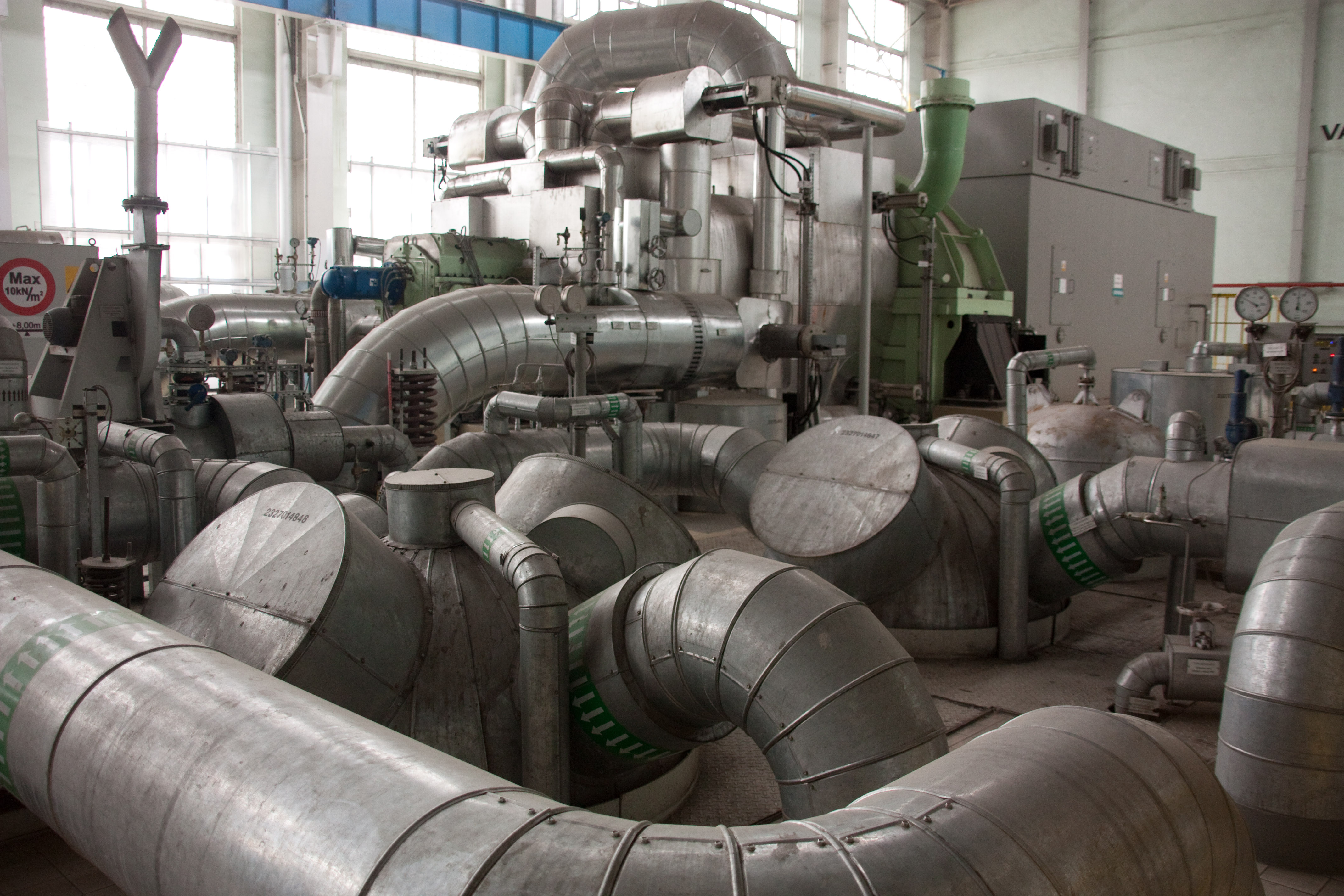 Żerań power plant